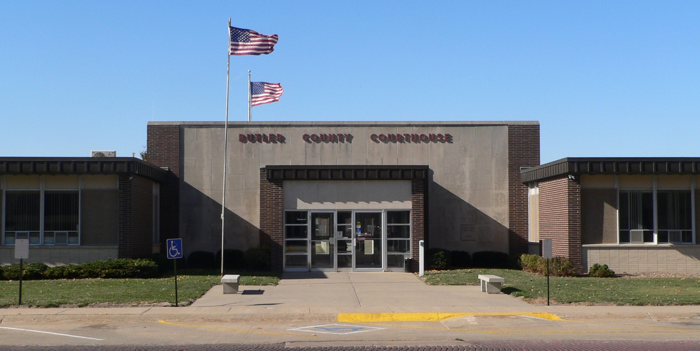 Butler County courthouse in David City, Nebraska; seen from the east. Fifth Street is in the foreground.